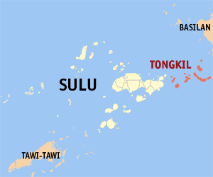 Map of the Sulu showing the location of Tongkil